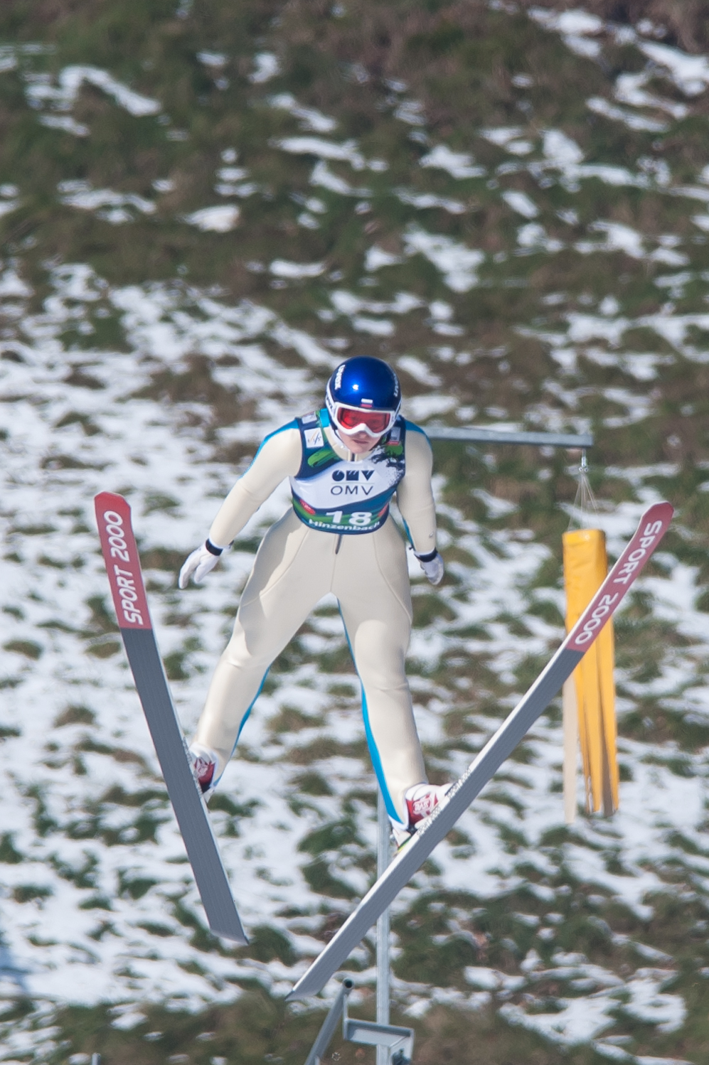 FIS Ski Jumping World Cup Hinzenbach Sun 1 Feb 2015